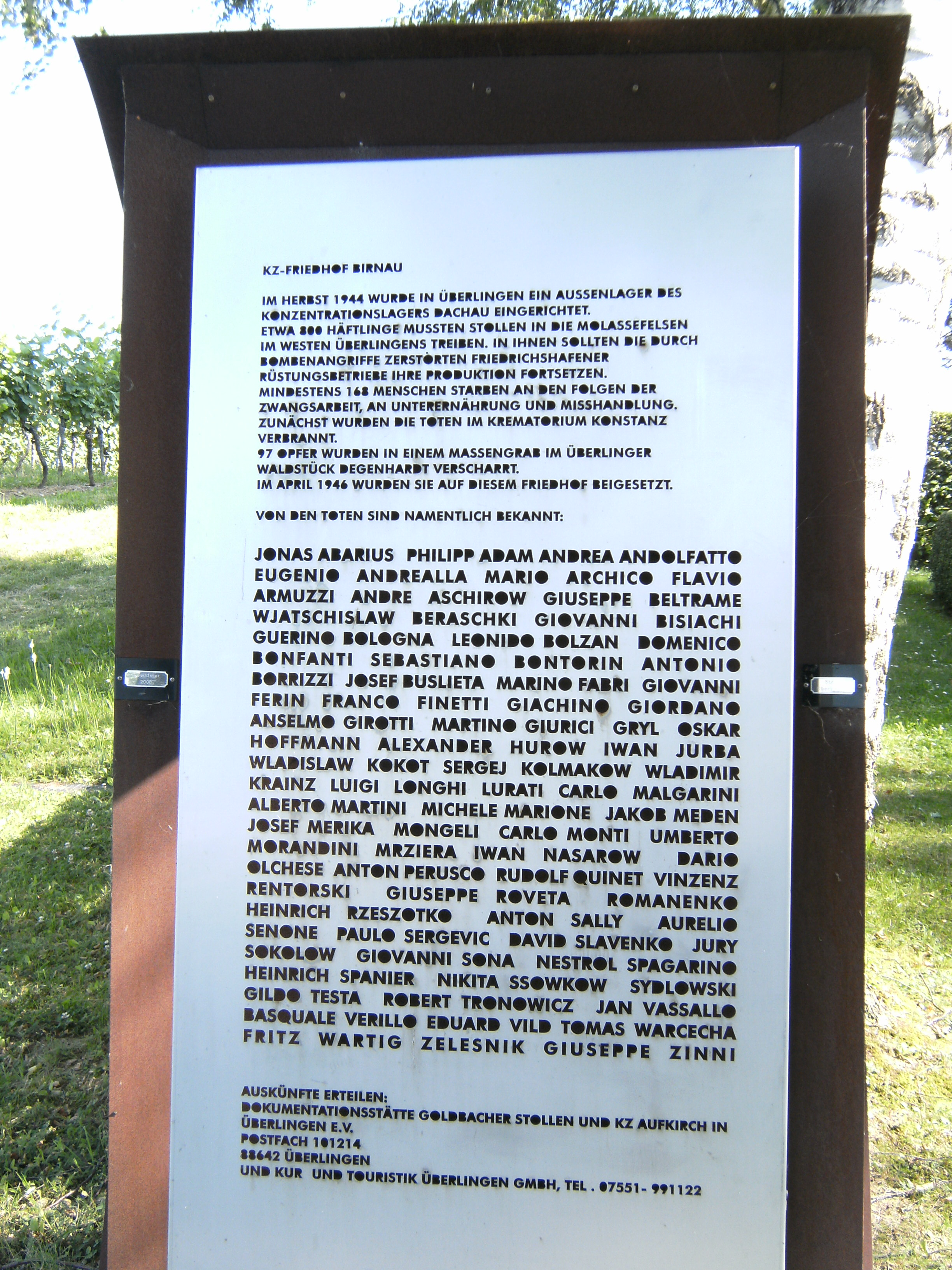 Board with names of buried persons on concentration camp cemetery Birnau.